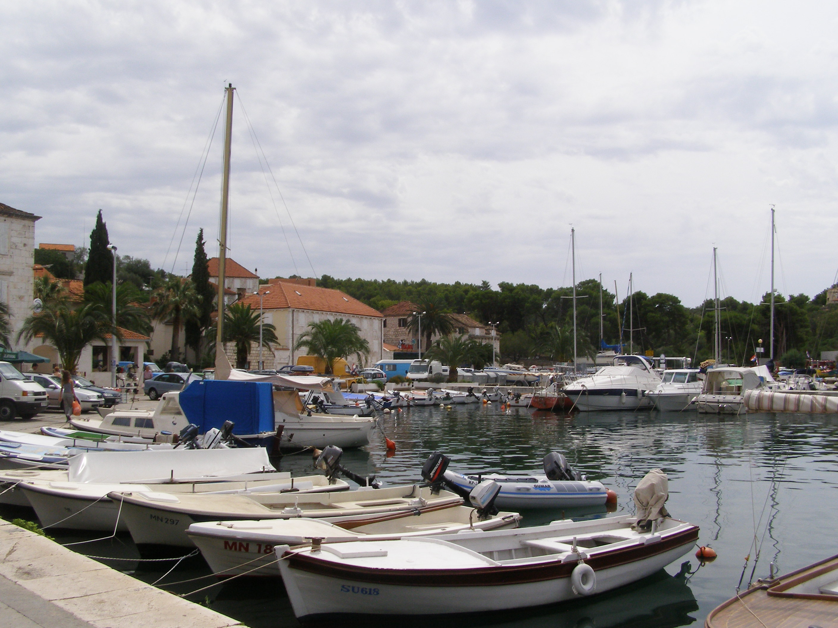 Port in Milna, Island of Brač, Croatia